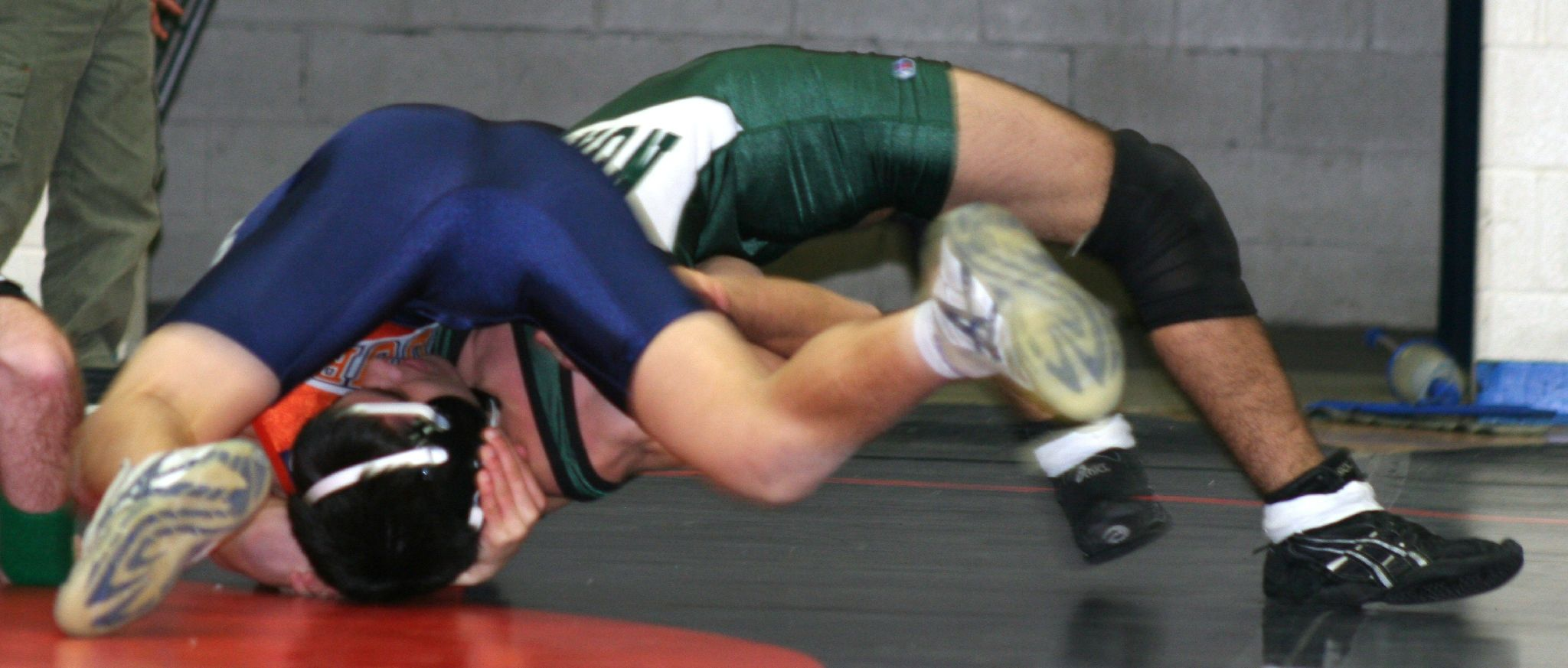 Two high school students wrestling (collegiate, scholastic, or folkstyle) in the United States.